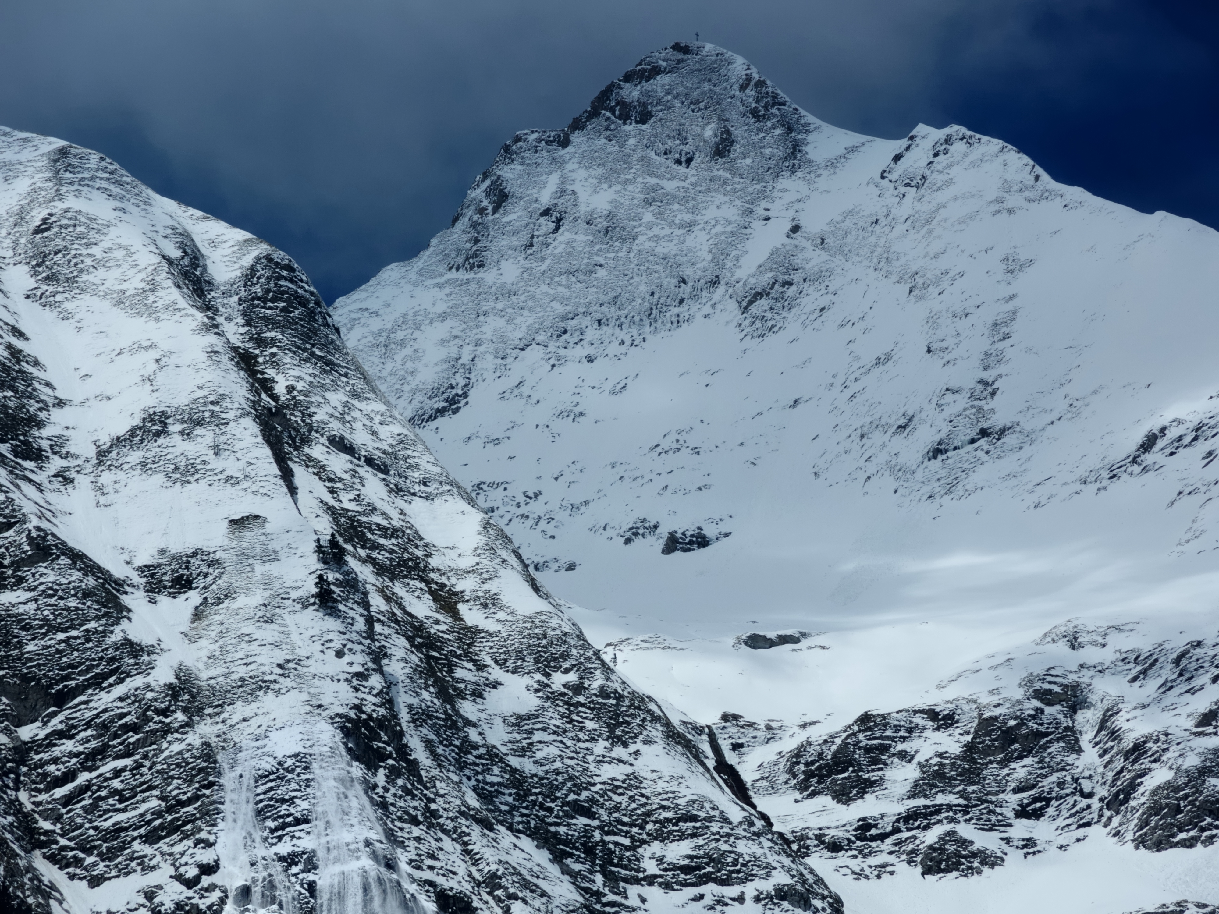 Vanil Noir, Château-d'Oex (Paray Charbon)